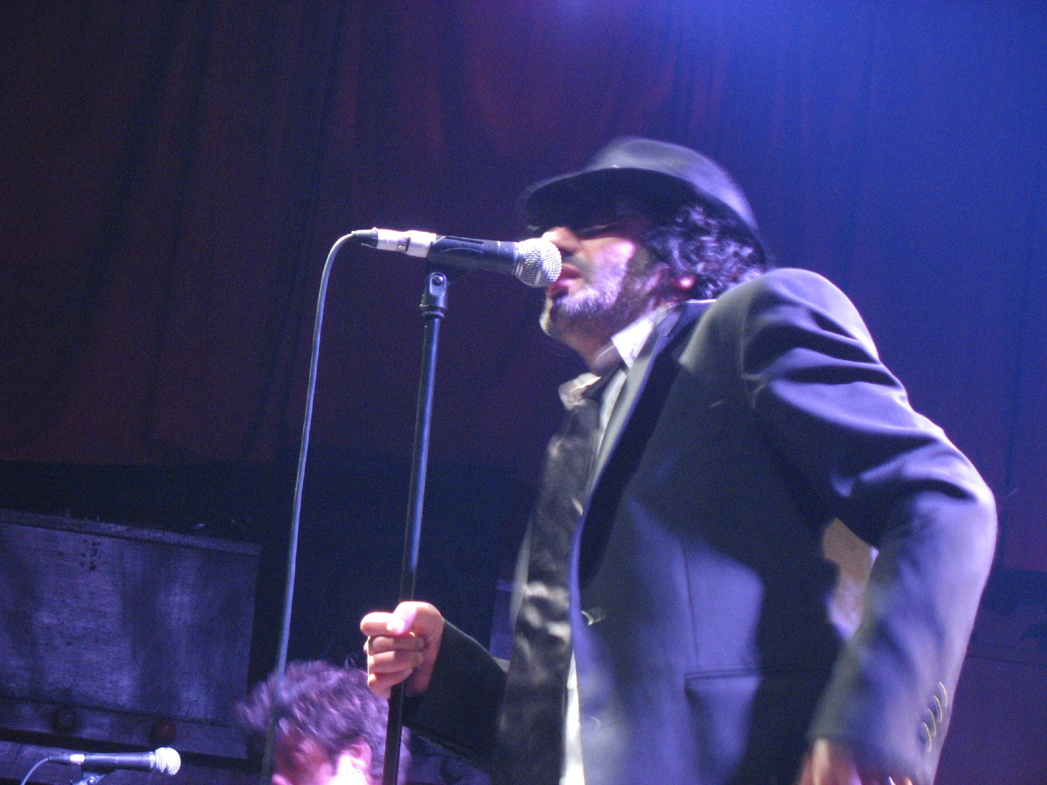 French-Algerian singer Rachid Taha performing live in 2007